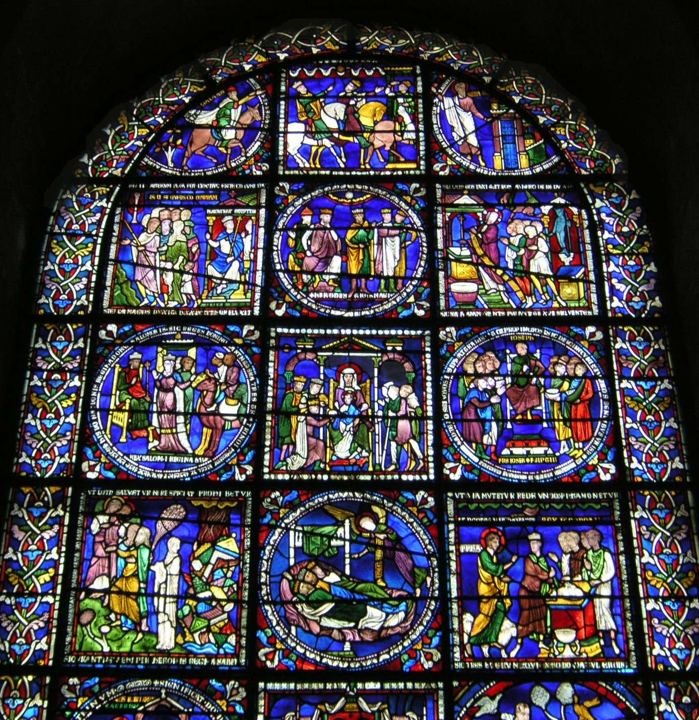 Canterbury Cathedral, upper half of Poor man's Bible window